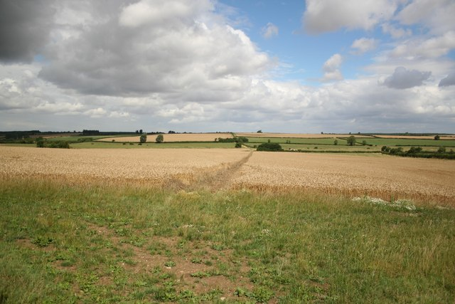 Footpath to Boothby Pagnell. View north from Westby towards Boothby Pagnell